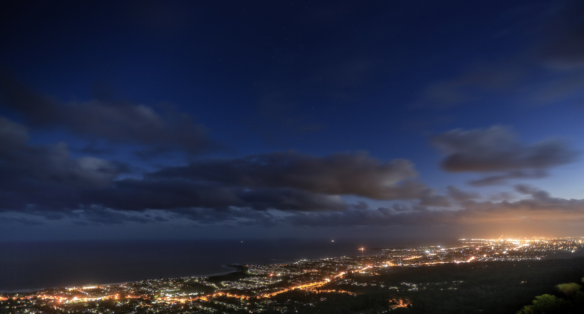 Wollongong at night